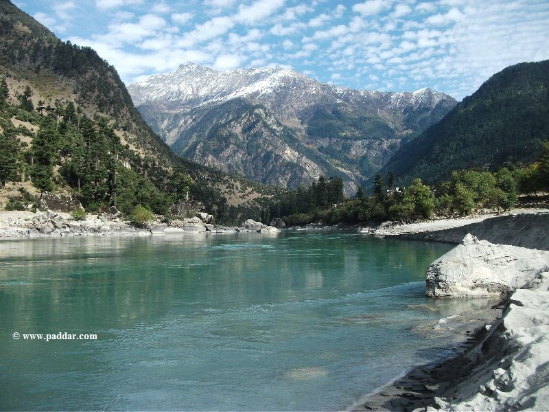 River Chenab flowing through the Paddar valley..